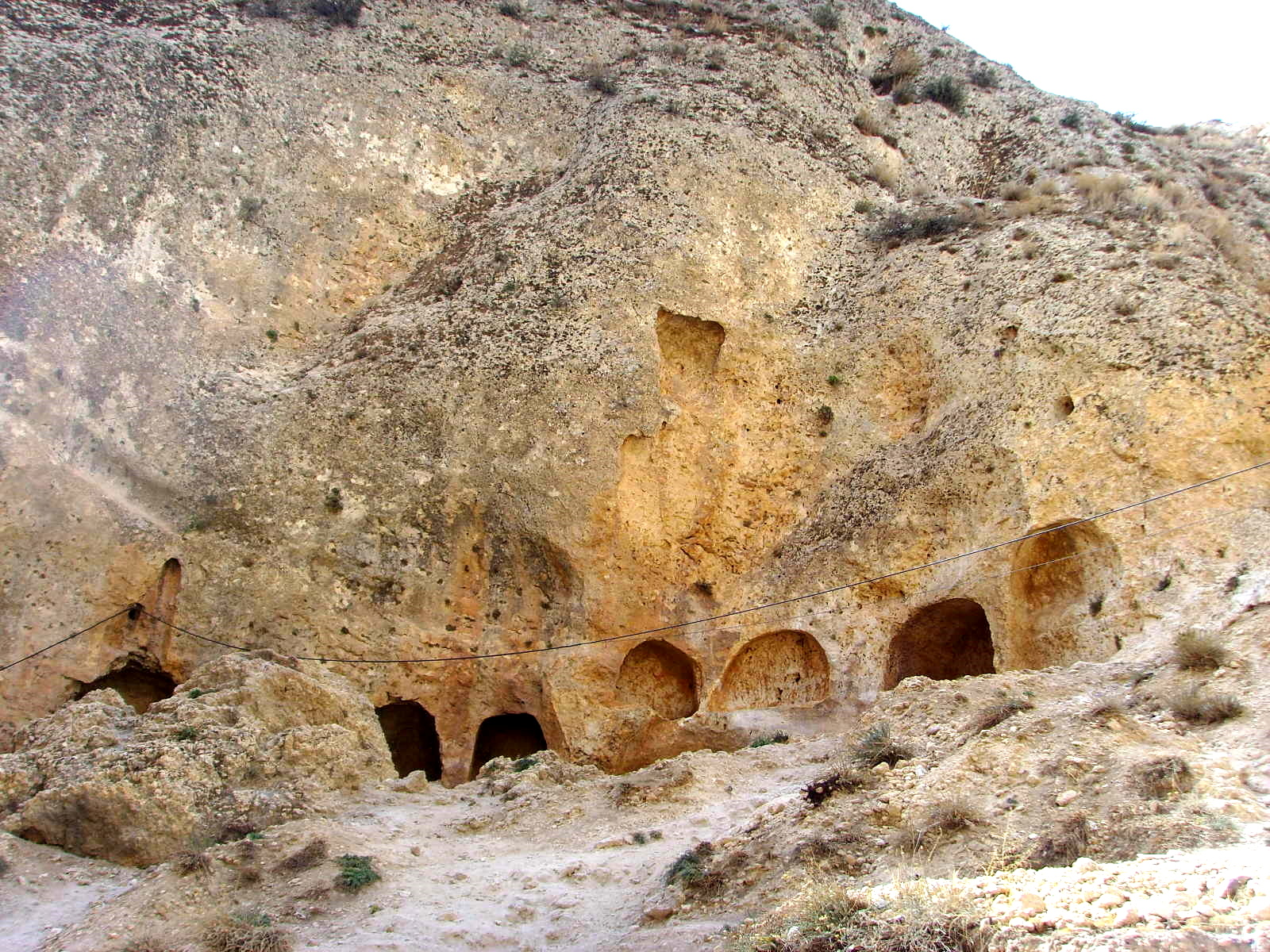 The gorge leading from Maalula to the Monastery St Takla